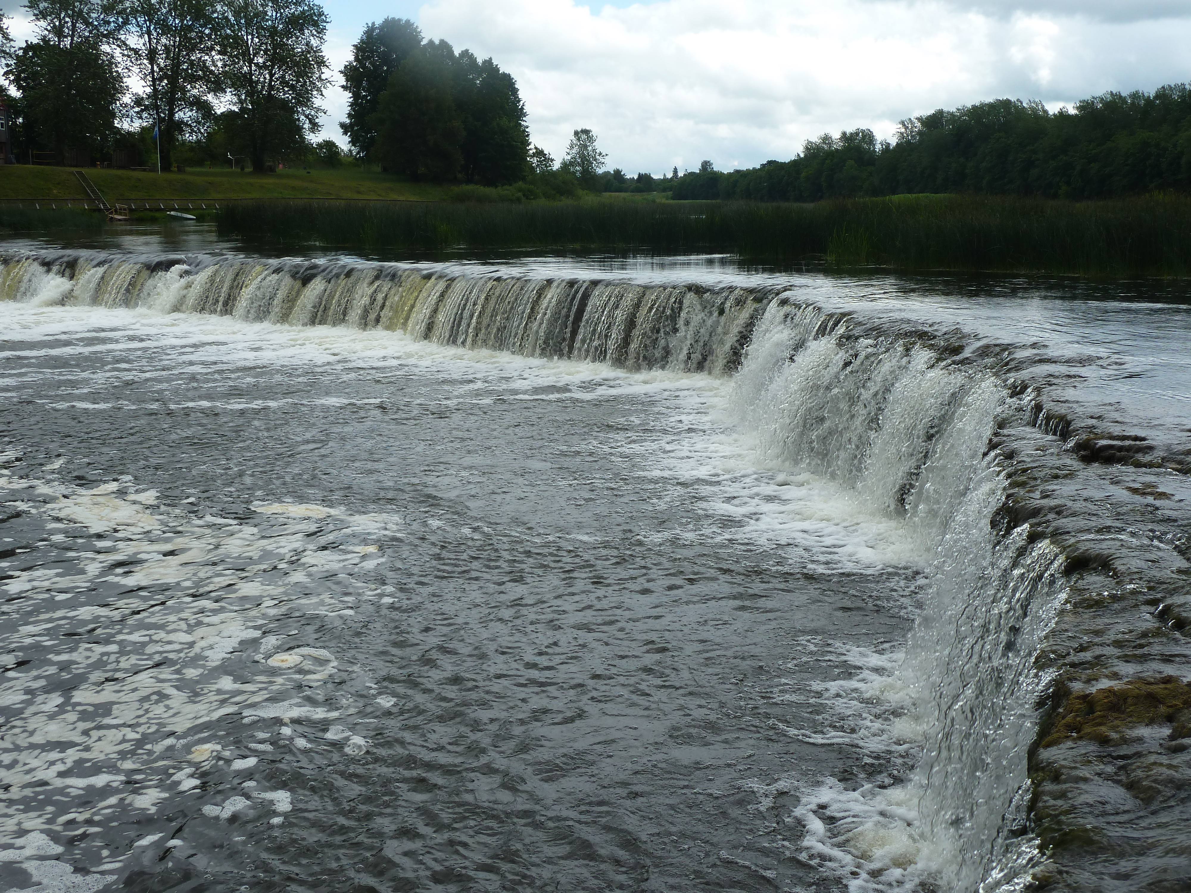 Ventas rumba, Kuldīga, Latvia.